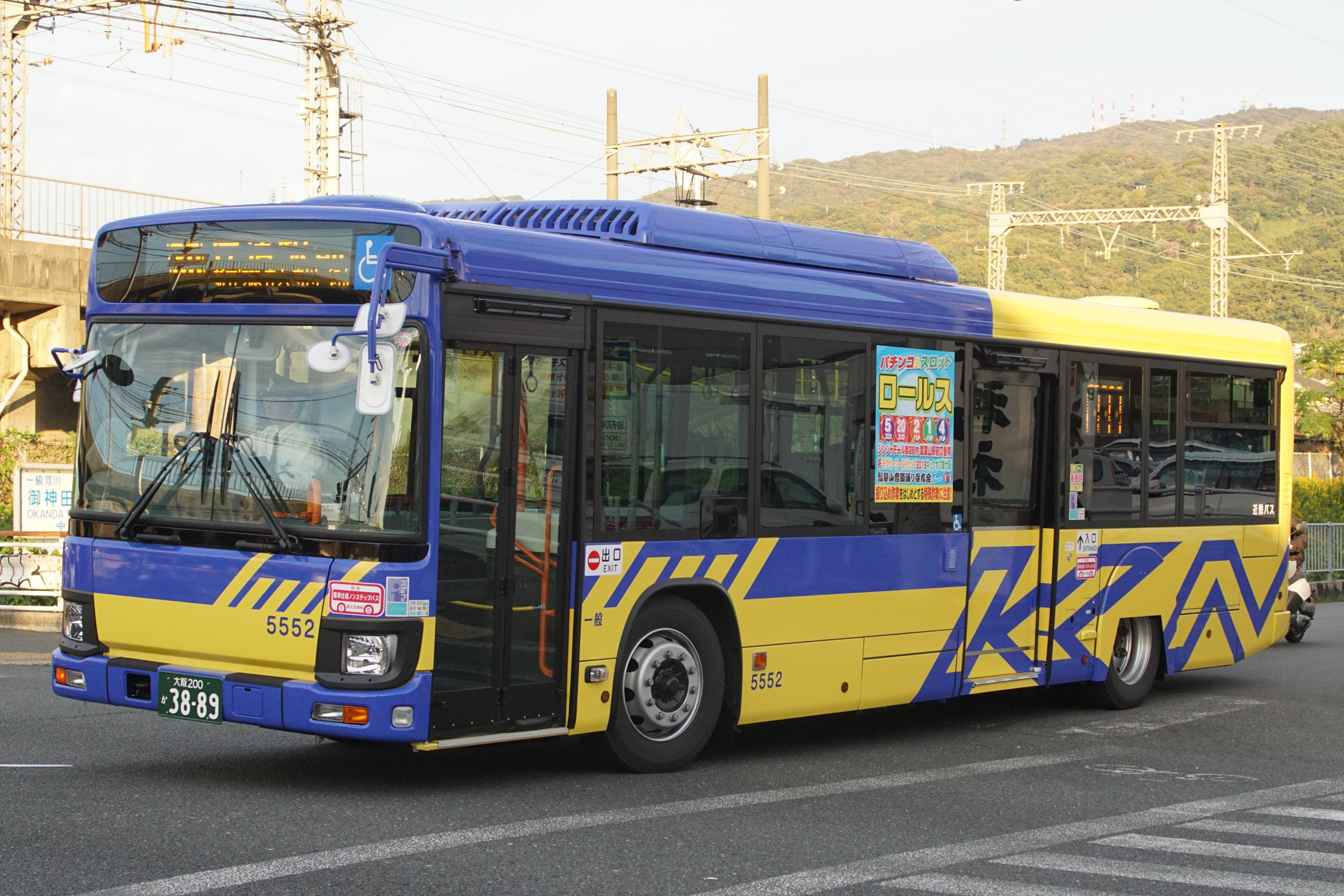 Second generation Erga made of Isuzu Motors that has been introduced into the Kintetsu Bus(QDG-LV290N1). Photo Taken at Hyotanyama Station.